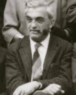 Felix Bloch, July 1963 at Copenhagen